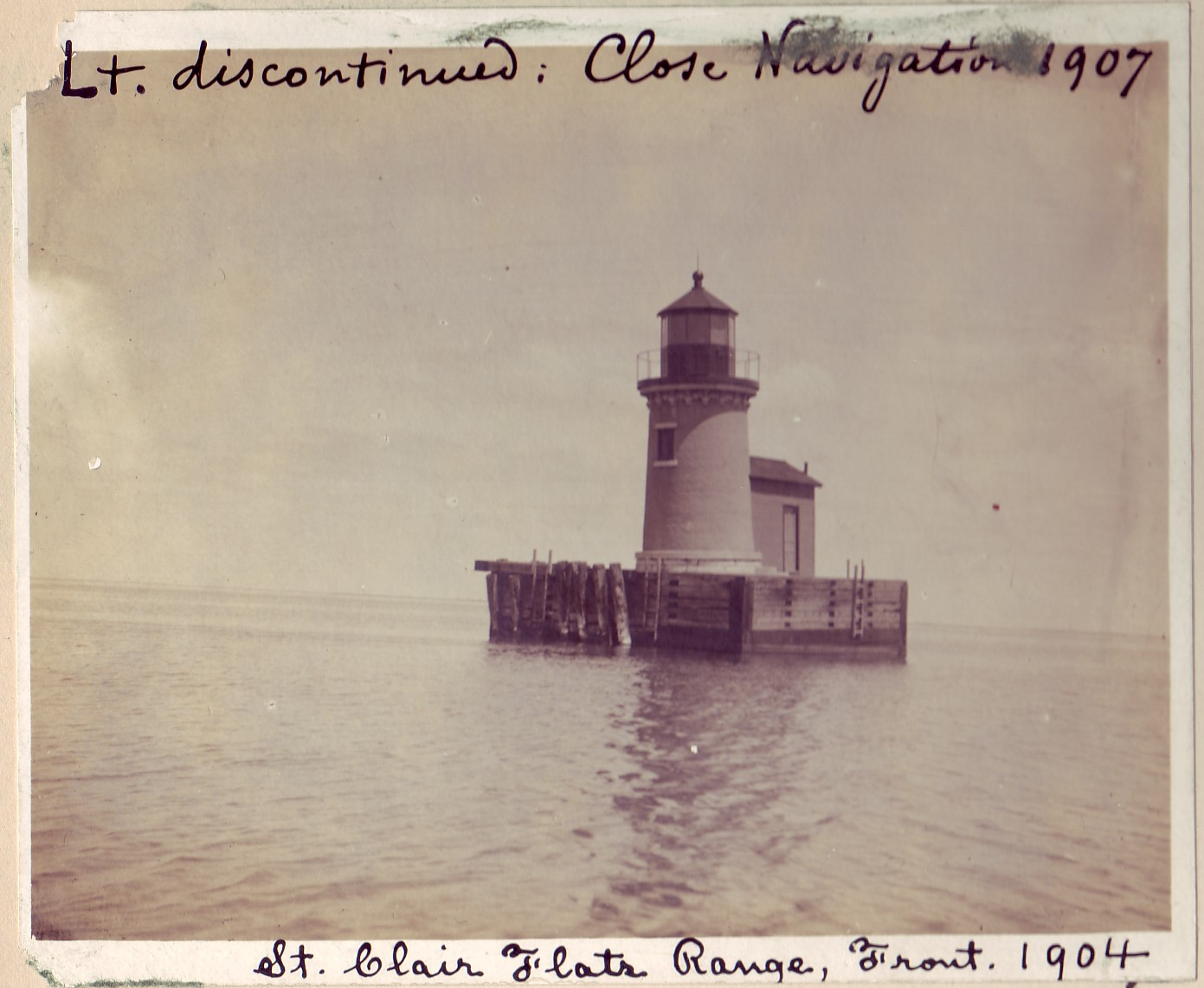 St. Clair Flats Front Range Light, Michigan - circa 1904